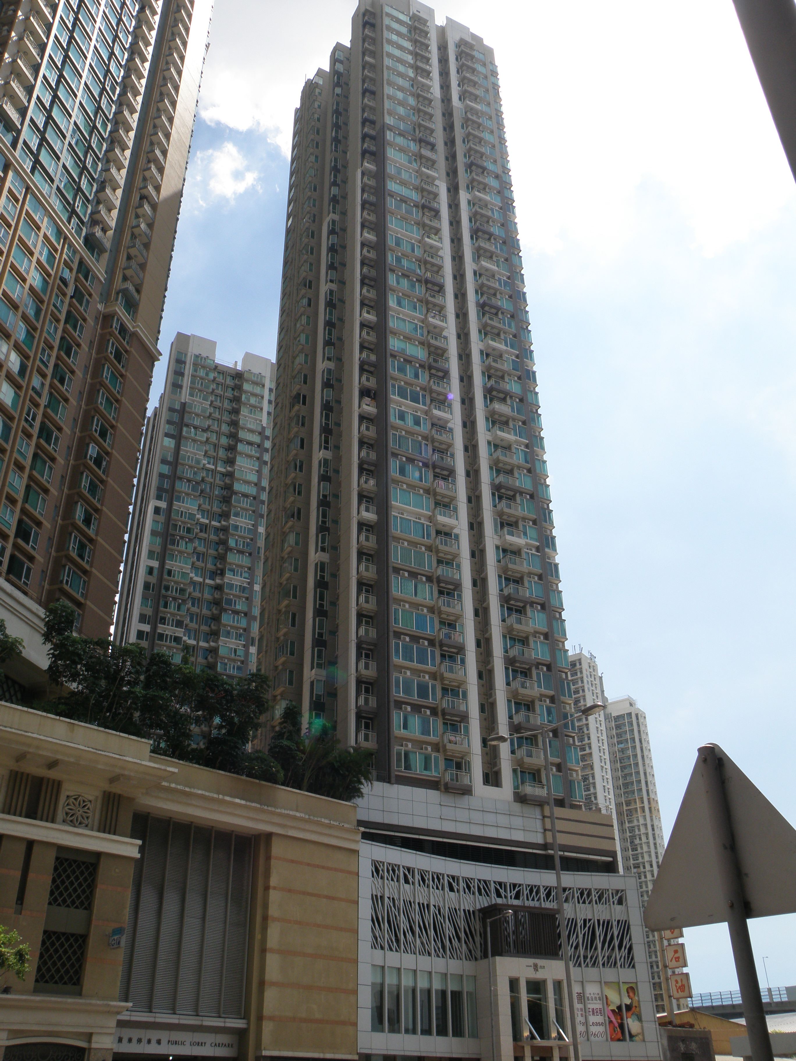 One West Kowloon in Lai Chi Kok, Hong Kong.